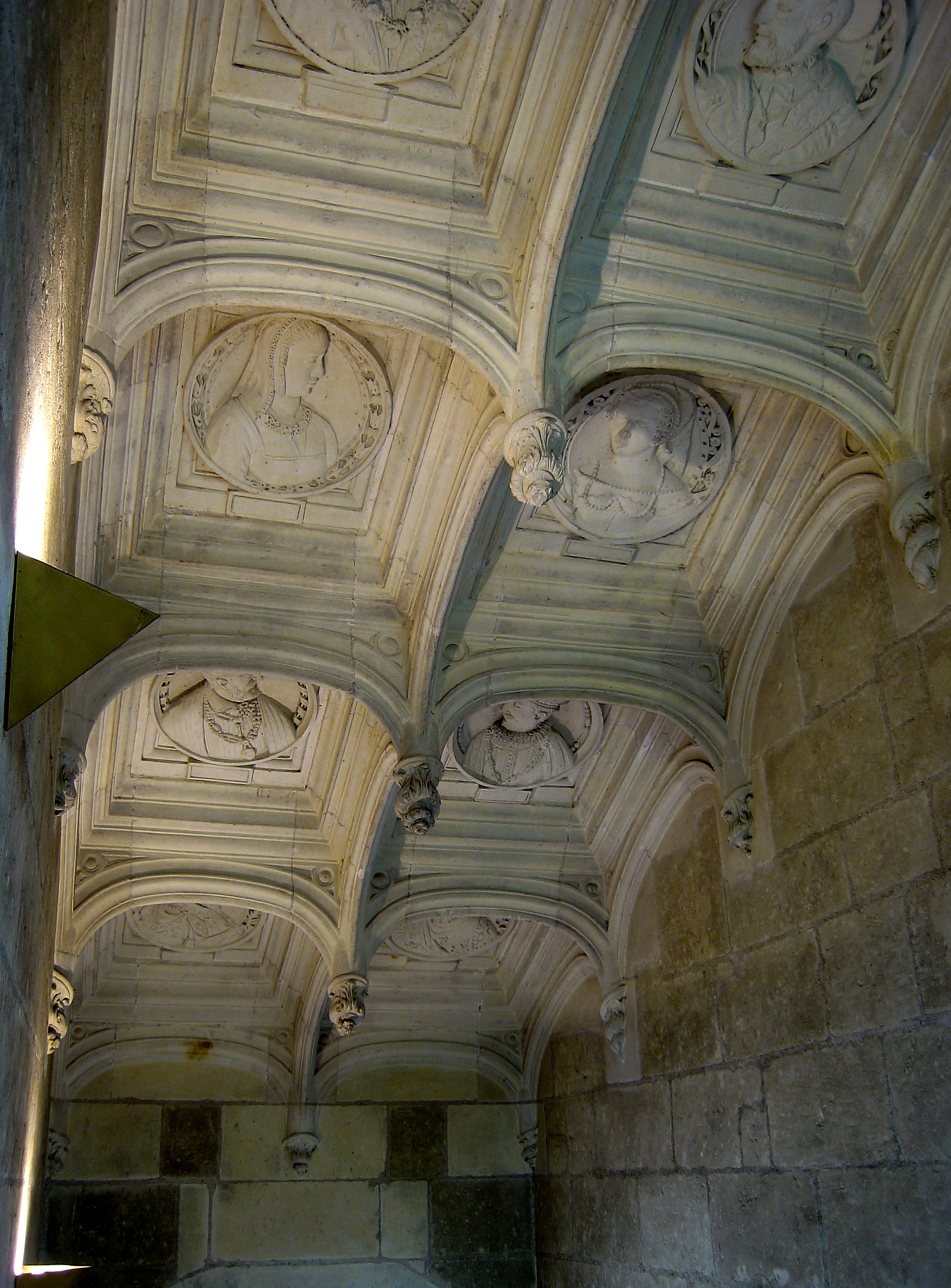 Coffered ceiling of the stairway in the Château d'Azay-le-Rideau in the village of Azay le Rideau on the river Indre, Region Centre, Département Indre-et-Loire/France.